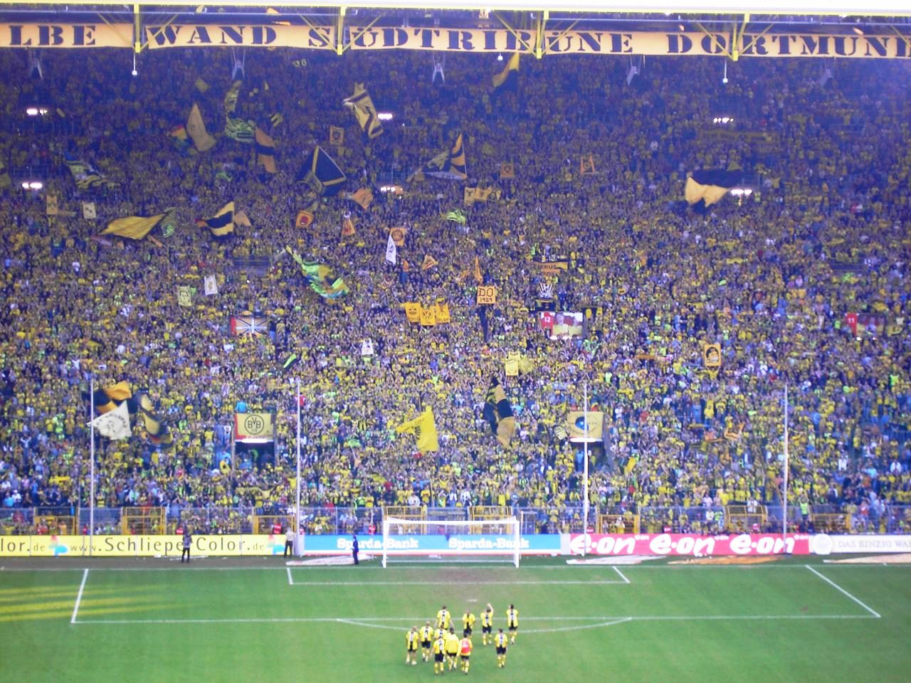 Südtribüne